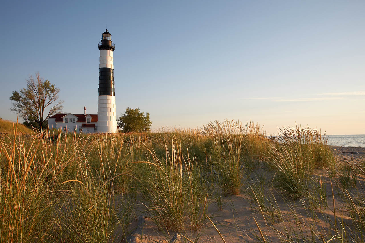 Golden light hits Big Sable Light Station about 30 minutes before sunset. Ludington State Park